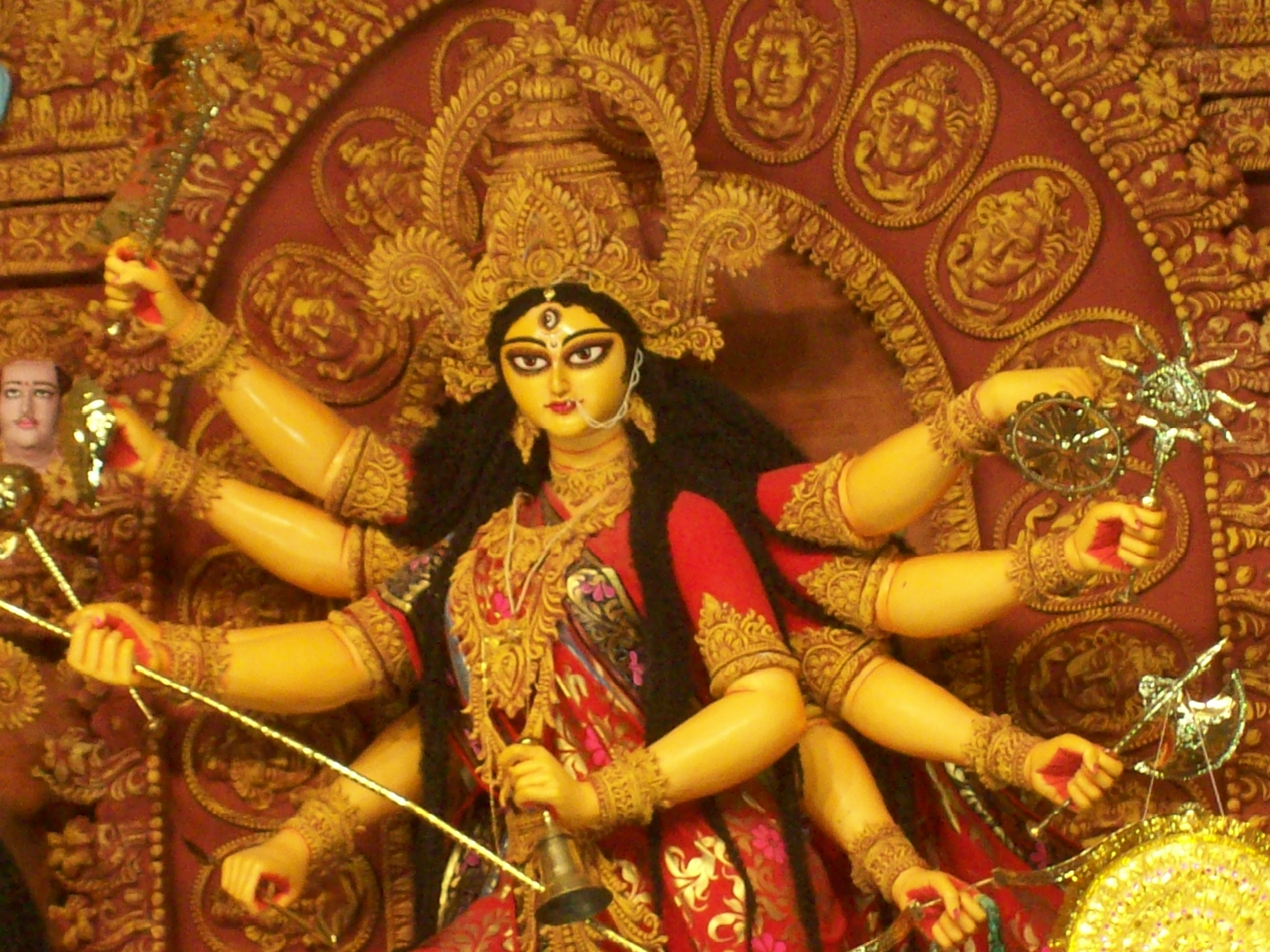 A photo describing the image of Lord Durga in Durga Puja